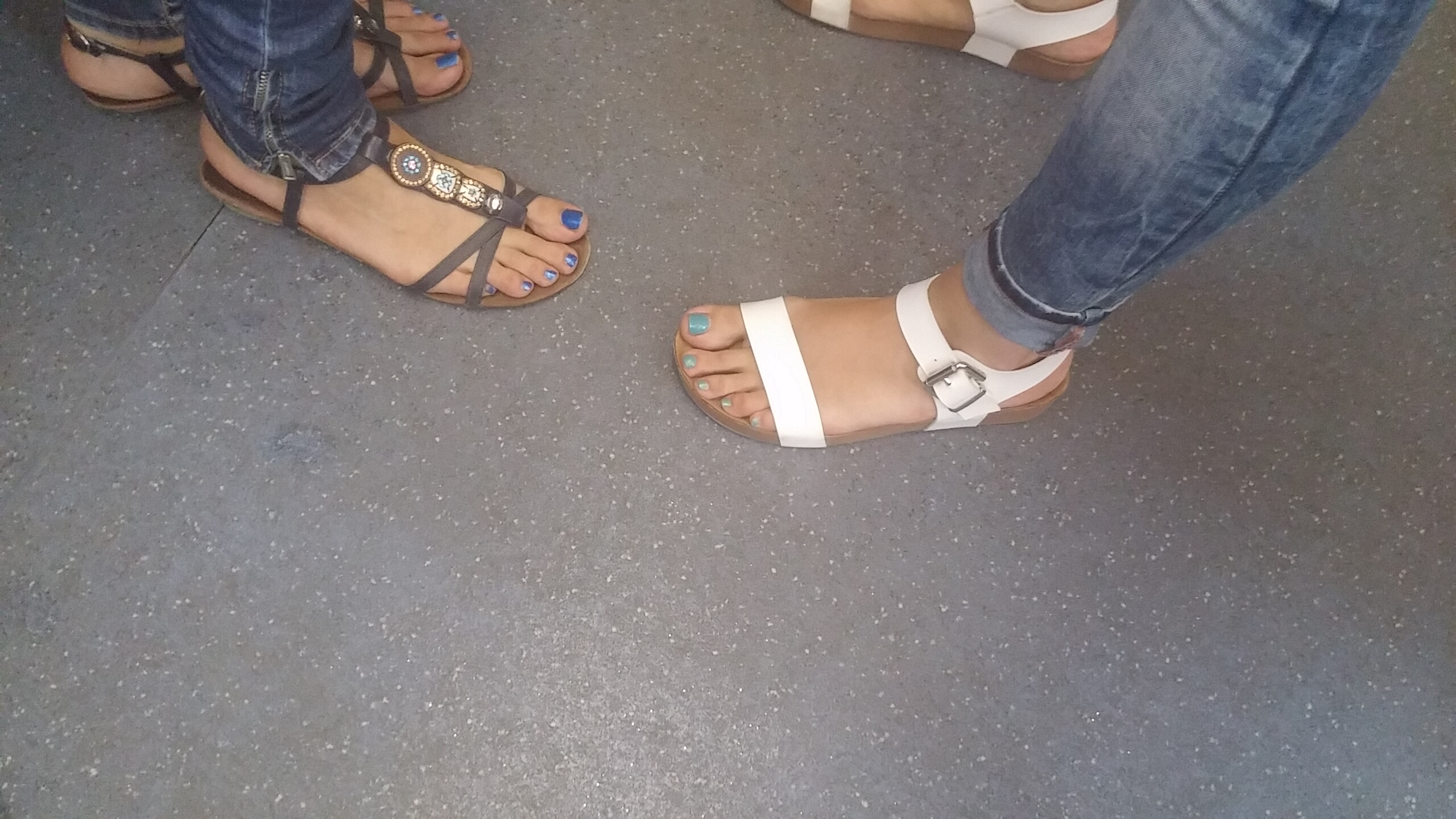 Two pairs of female feet with sandals on